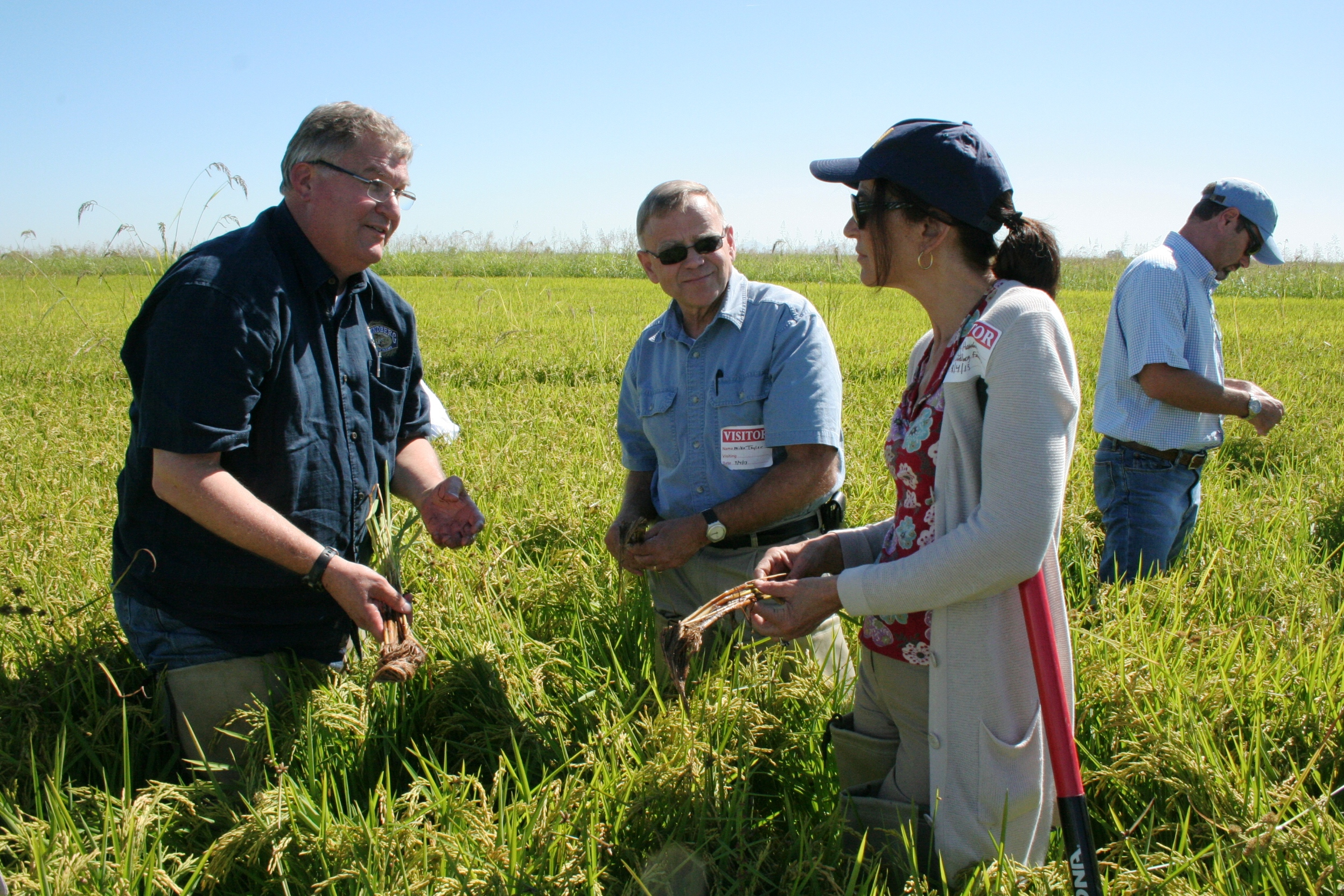 FDA Commissioner Margaret A. Hamburg and colleagues visited research facilities and rice farms in California on Sept. 4-5, 2013 in an effort to gain a greater understanding of the presence of arsenic in rice. Here, Hamburg and Deputy FDA Commissioner for Foods and Veterinary Medicine Michael Taylor, center, don hip waders to go out into the rice fields at Lundberg Family Farms in Richvale, Calif. At left is Bryce Lundberg, the farms' vice president of agriculture, and at right is Mike Denny, vice president of farming operations. For more information, read the FDA Voice blog: • On Farms and in Labs, FDA and Partners Are Working to Get Answers on Arsenic in Rice FDA photo by Erica Pomeroy